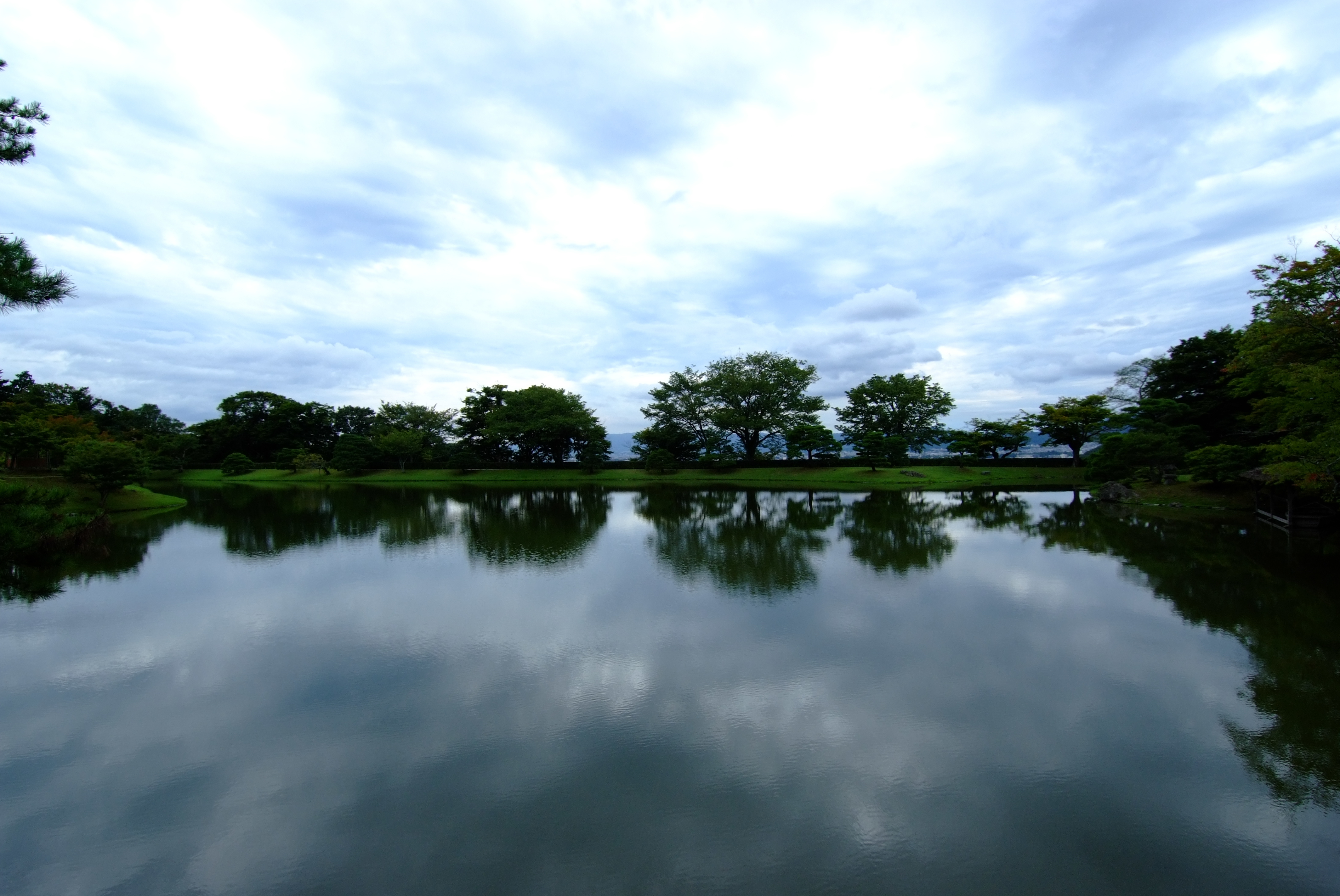 Nishihama in Shugakuin Imperial Villa, at Kyoto Japan.